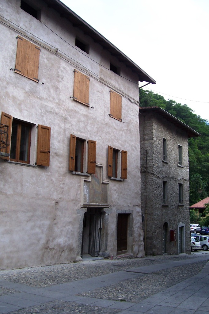 Laboratory & Hostel Nadro, Val Camonica